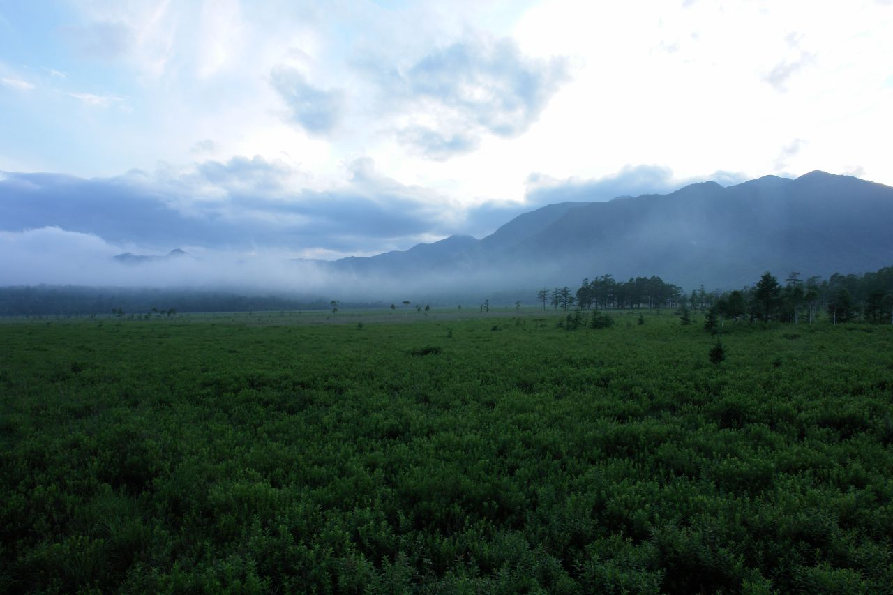 Senjōgahara Plateau in Nikko, Japan.